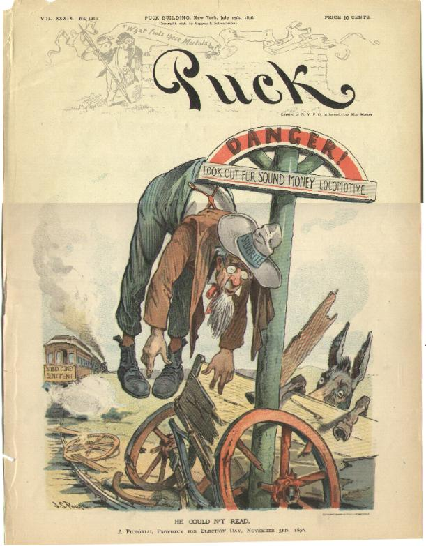 cartoon from PUCK magazine 1896